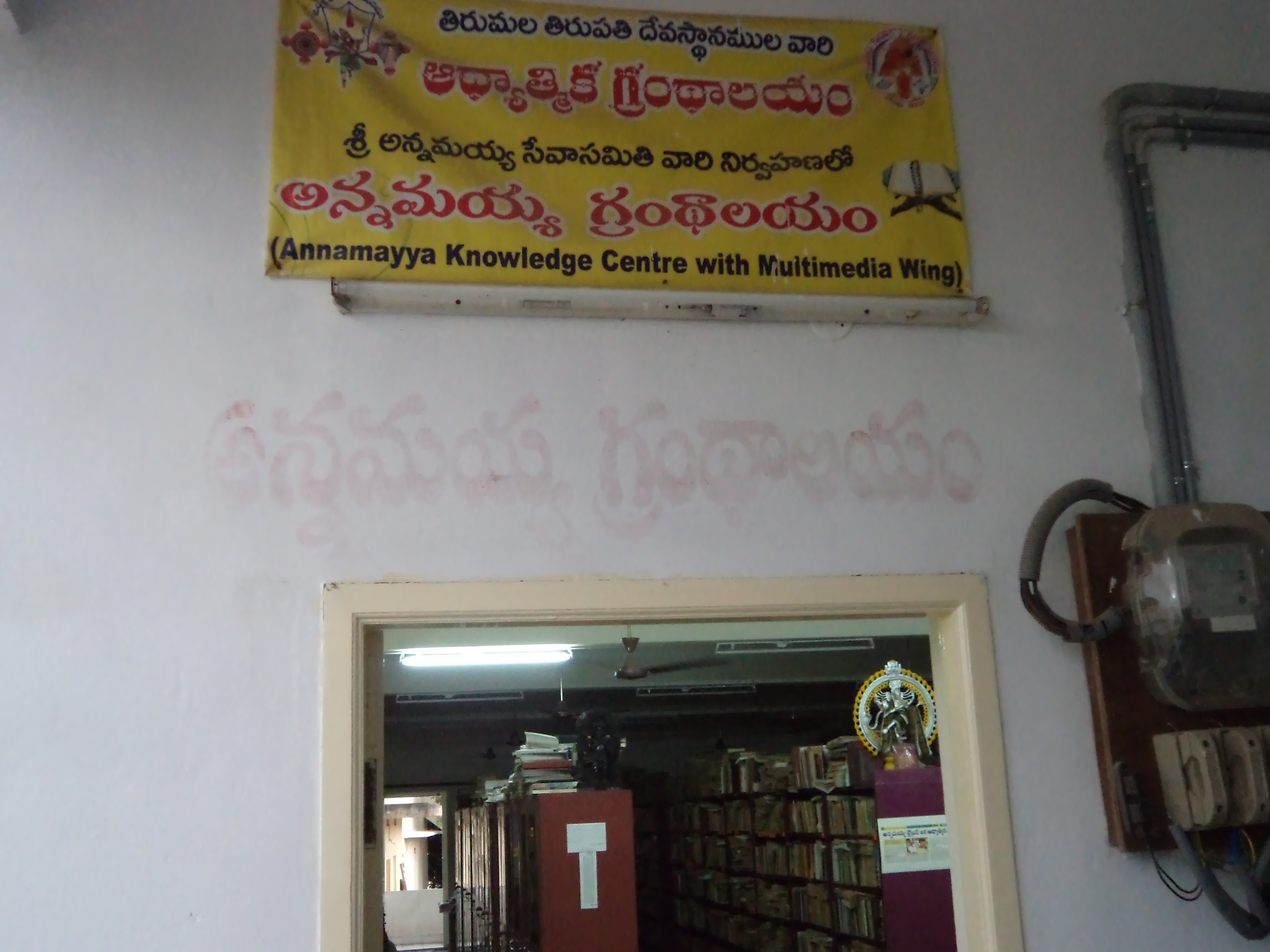 Annamayya library